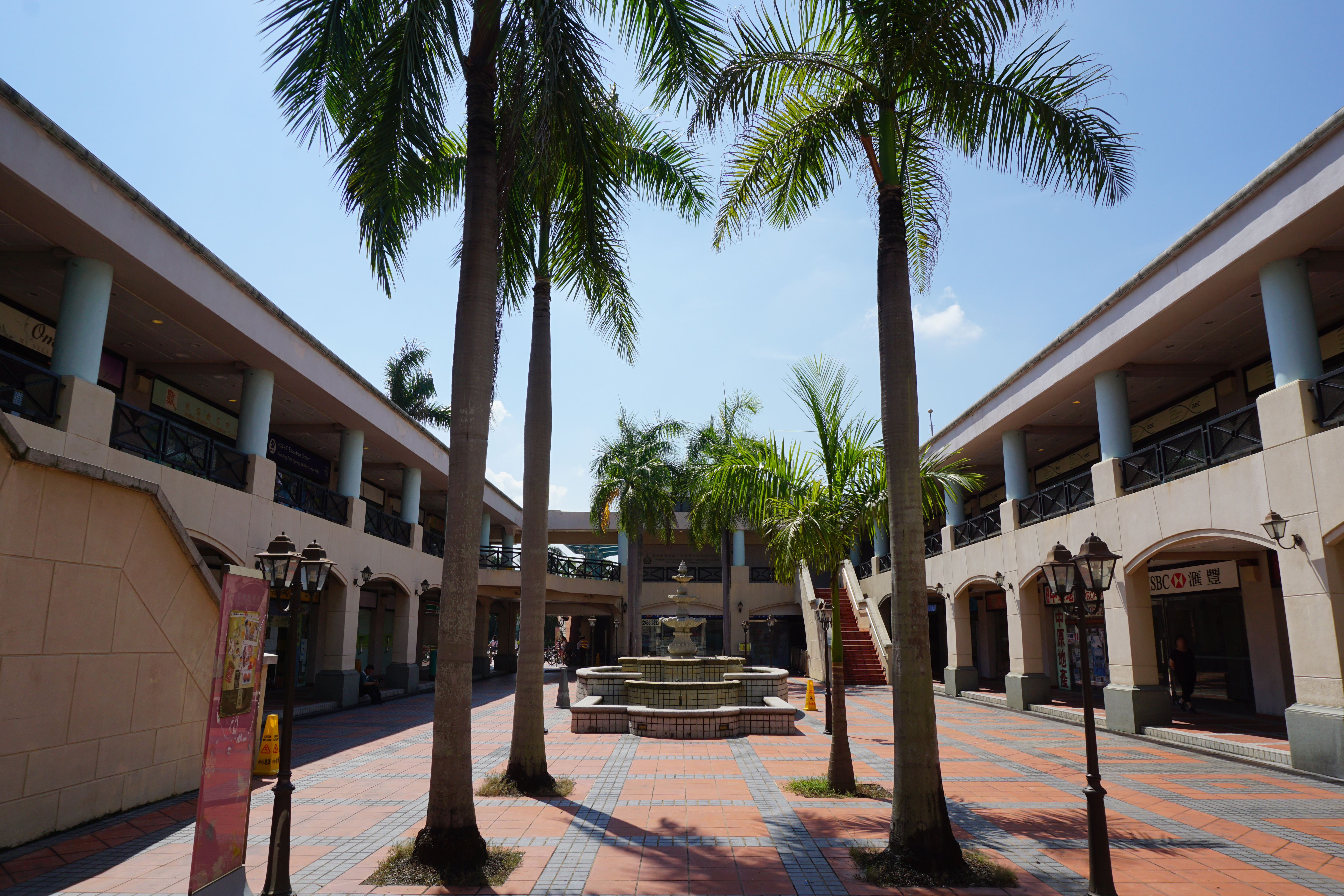 Palm Springs Plaza in Wo Shang Wai, Hong Kong.